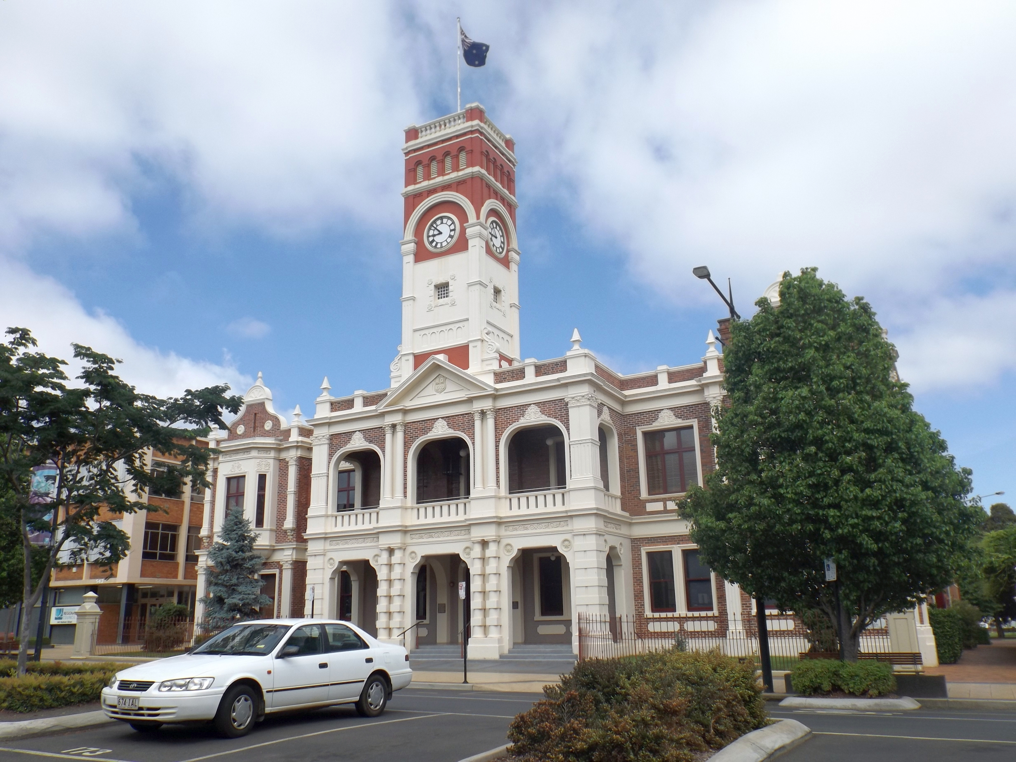 Photo of Toowoomba City Hall in Toowoomba City, Queensland, Australia.